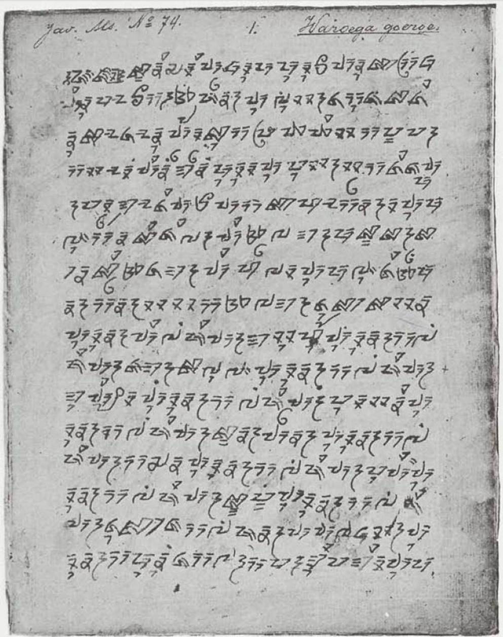 The first page of the Carita Waruga Guru manuscript, written in the Old Sundanese language and with the Old Sundanese script.Sunda: Kaca munggaran tina naskah Carita Waruga Guru anu nganggo Aksara Sunda Kuno sareng Bahasa Sunda Kuno.